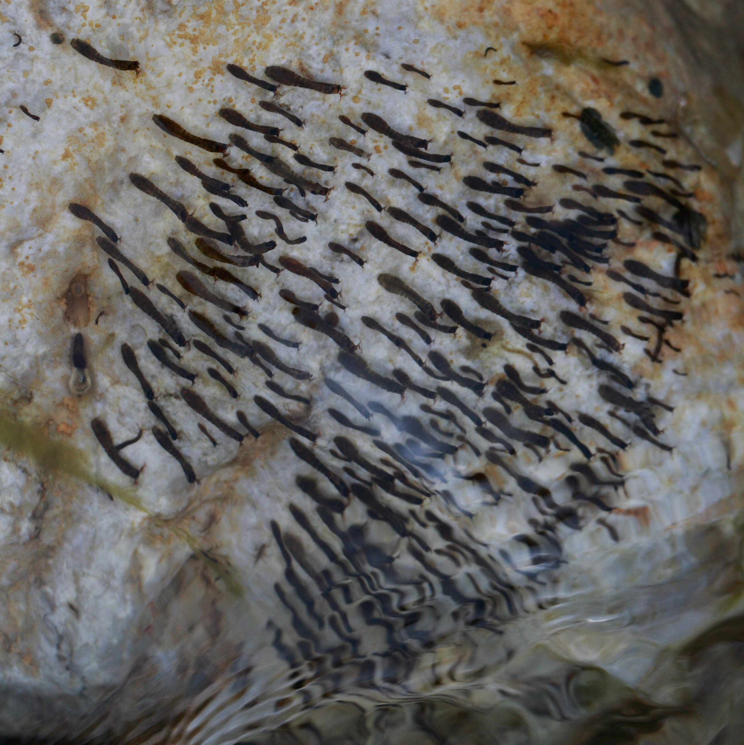 Freshwater Simuliidae colony on a rock in a river in Andrazza, Italy.